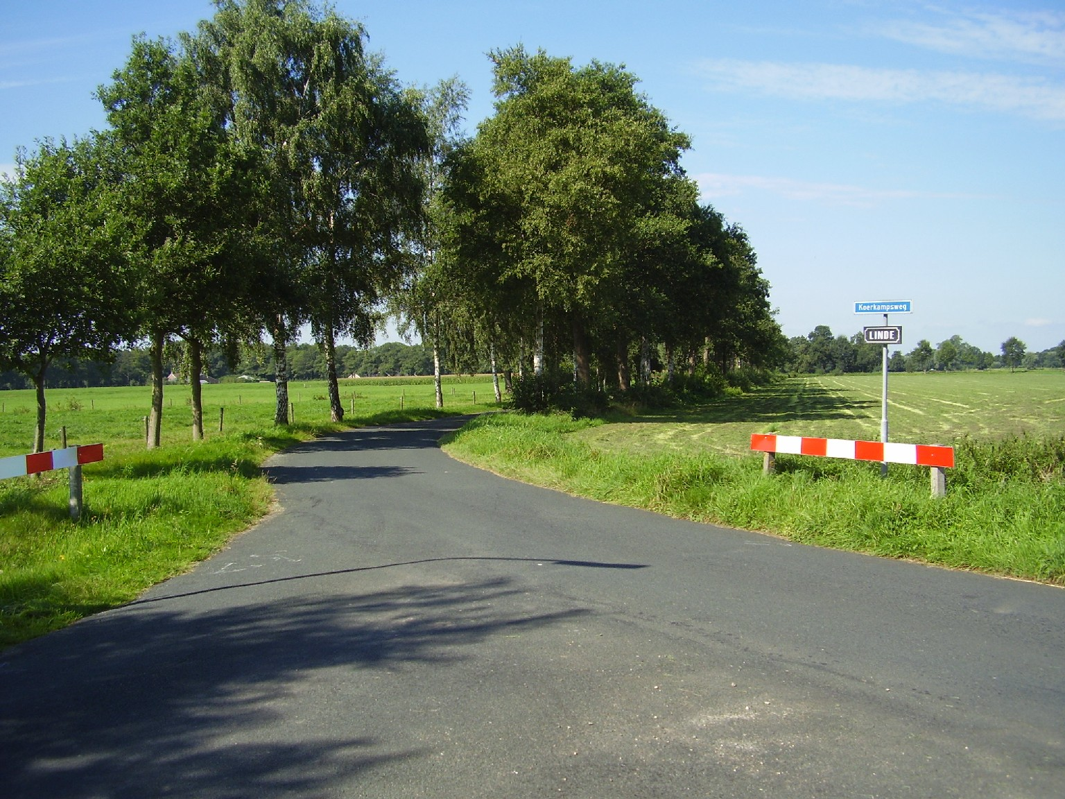 Hamlet Linde in the municipality of Deventer, the Netherlands